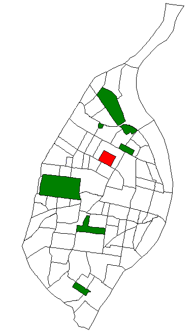 Map of St. Louis Neighborhood #58 (The Ville)